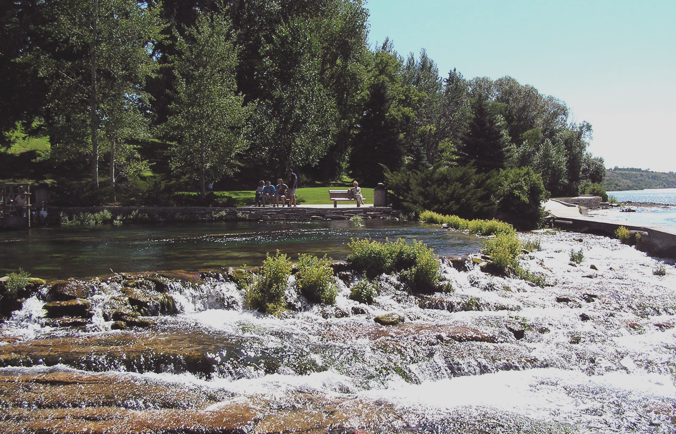 The natural springs at Giant Springs State Park and Giant Springs Trout Hatchery — in Great Falls, Montana.